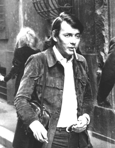 F. De André at 20 years.